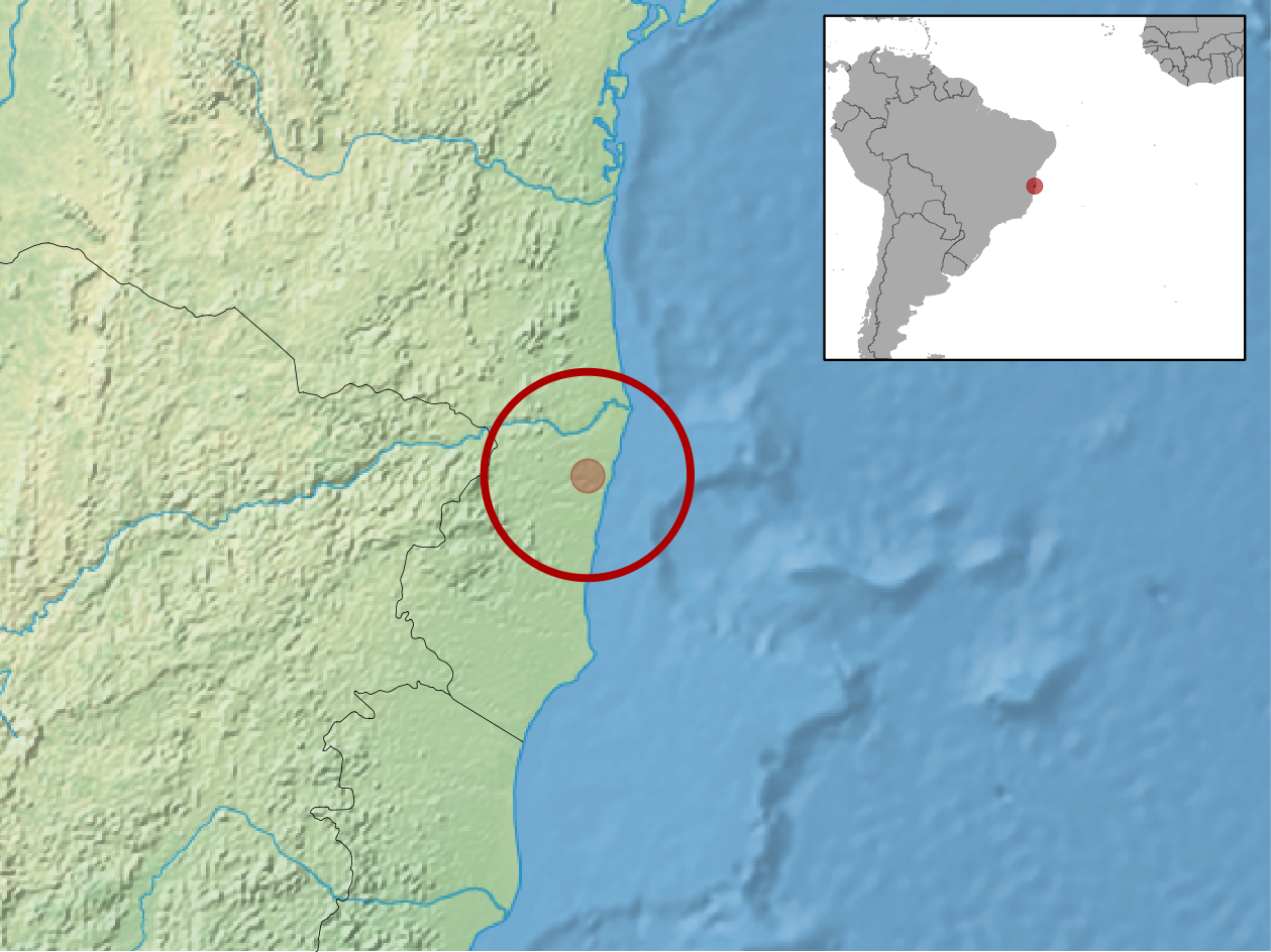 geographic distribution of Trinomys mirapitanga